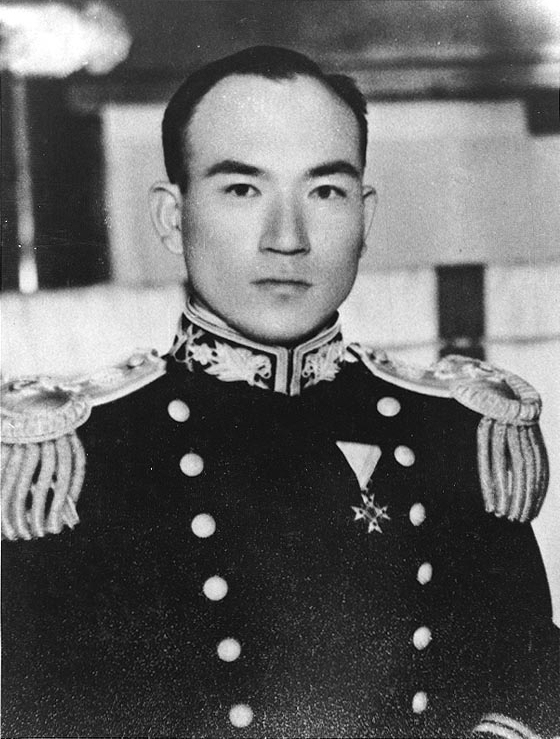 Lieutenant Joichi Tomonaga, commander of the Hiryu torpedo squadron at the battle of Midway